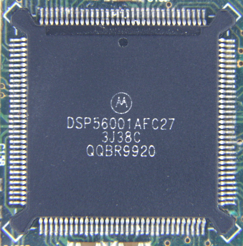 IC photo